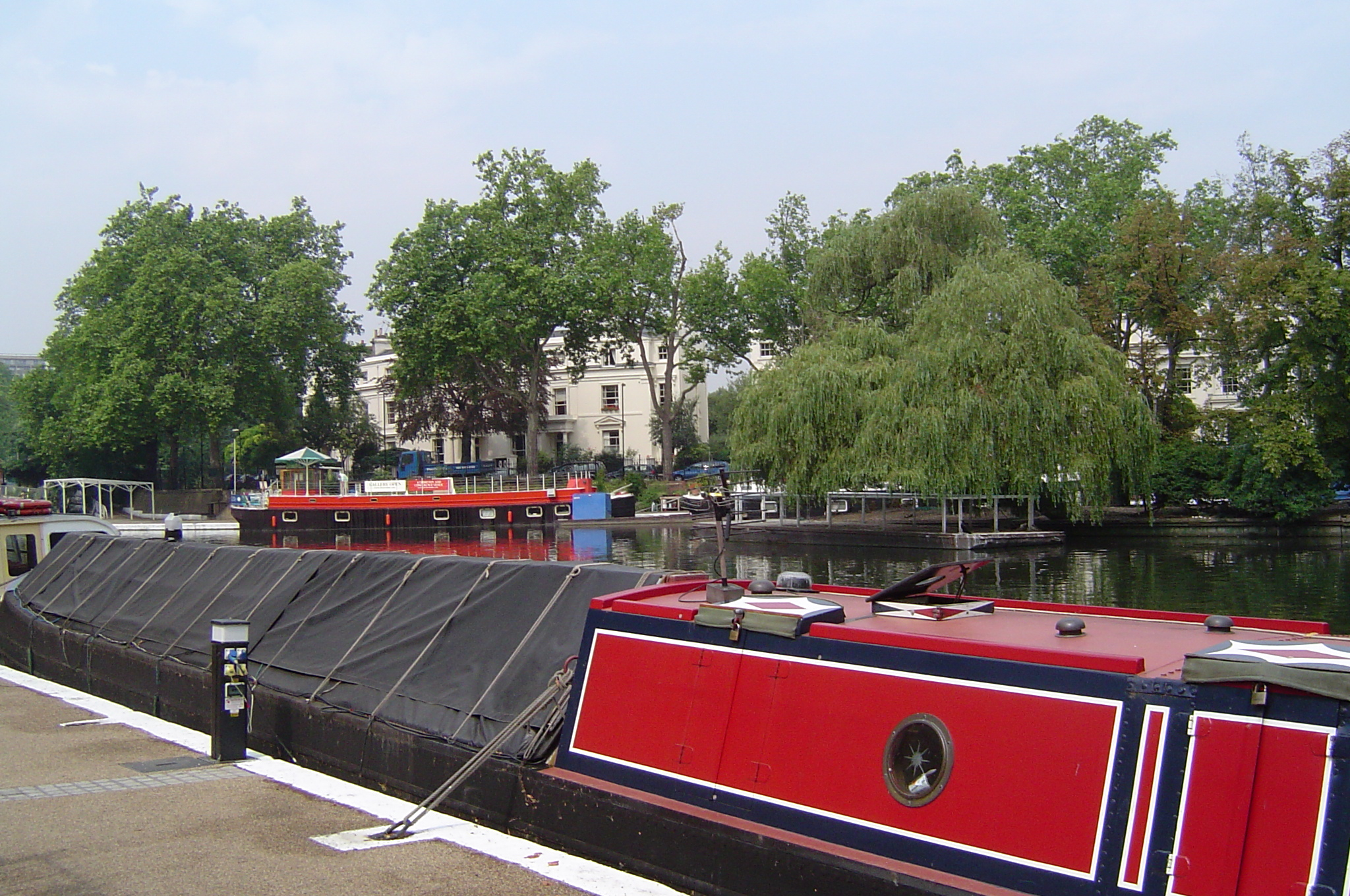 View of Little Venice, London.